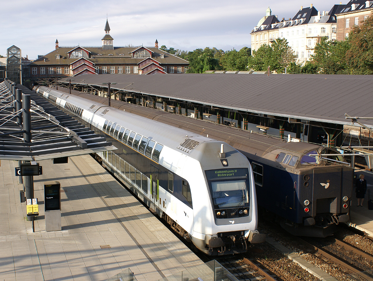 Litra ABs from Bombardier with an older Litra ABns at Østerport Station